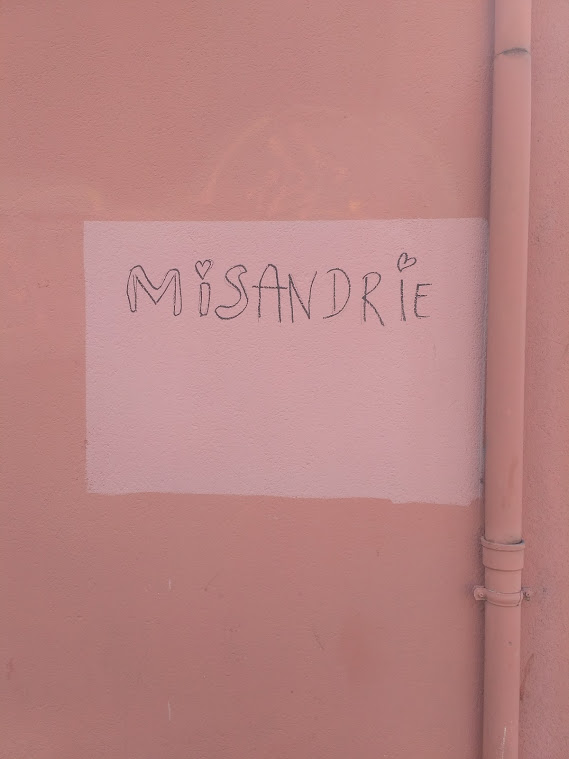 A tag that says "Misandrie", found in Grenoble, France.